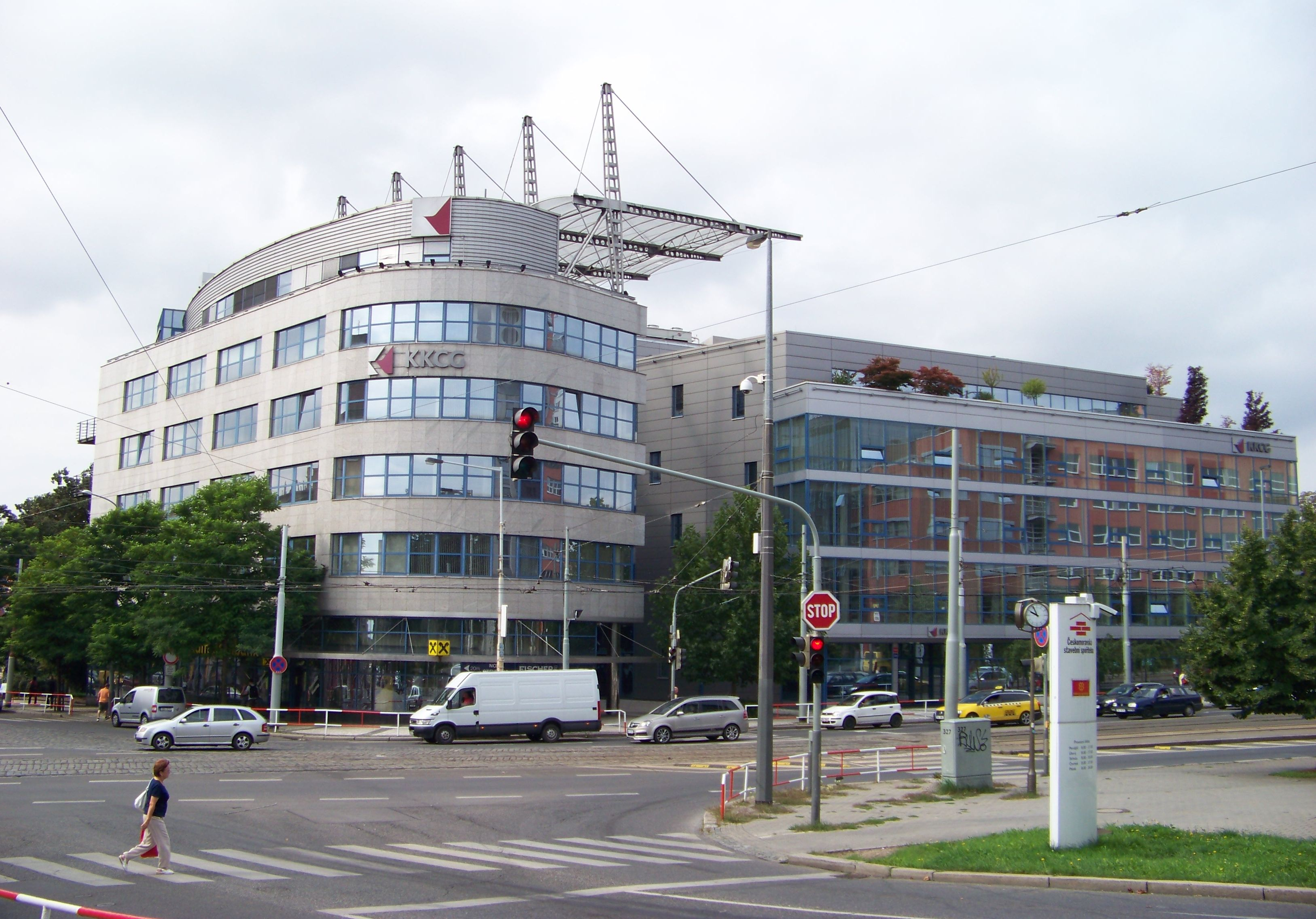 Prague-Strašnice, the Czech Republic. Vinohradská street, KKCG building. - OpenStreetMap(Info)